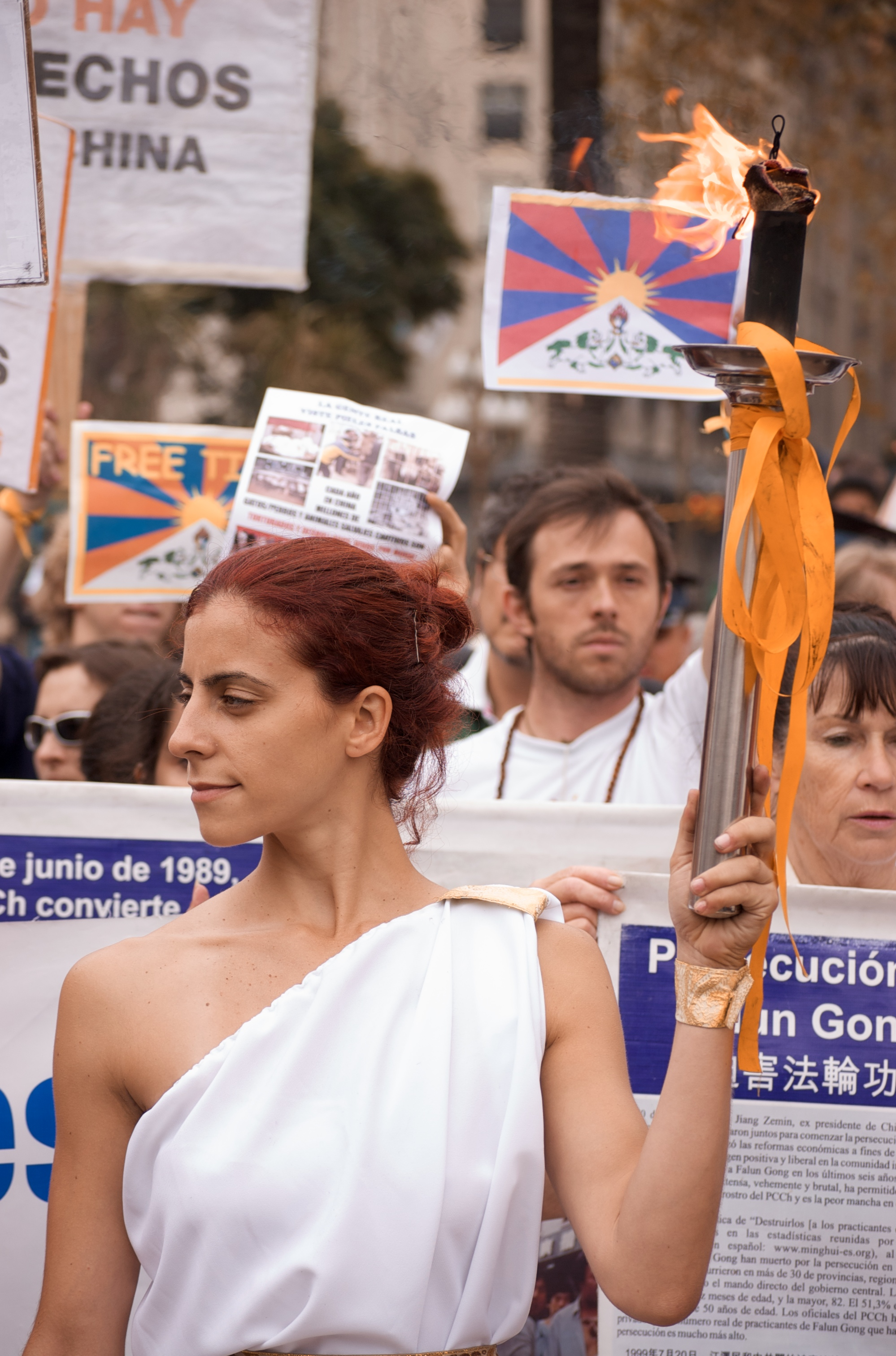 2008 Summer Olympics torch relay in Buenos Aires.